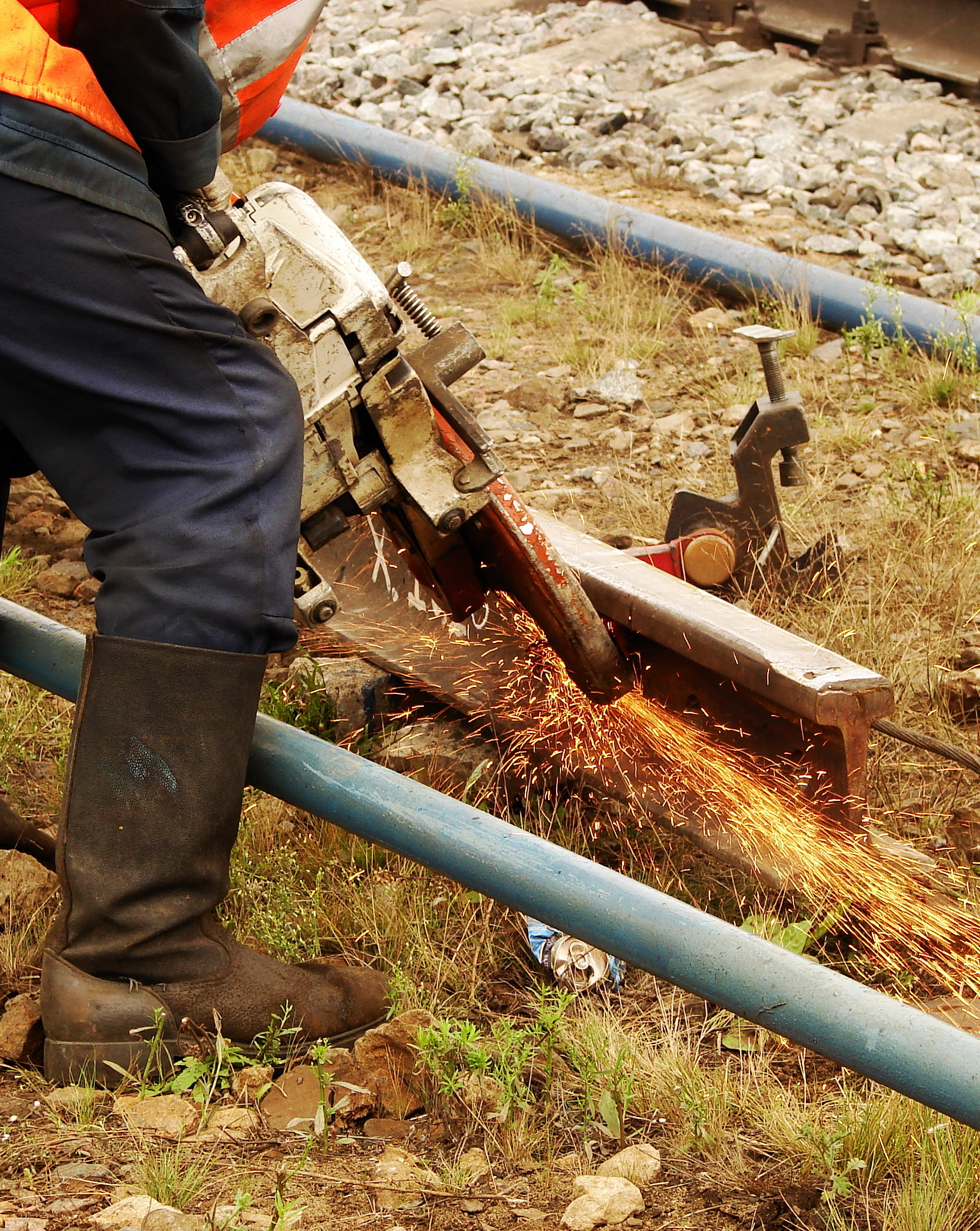 Russian Railways, Rail cutting machine in use